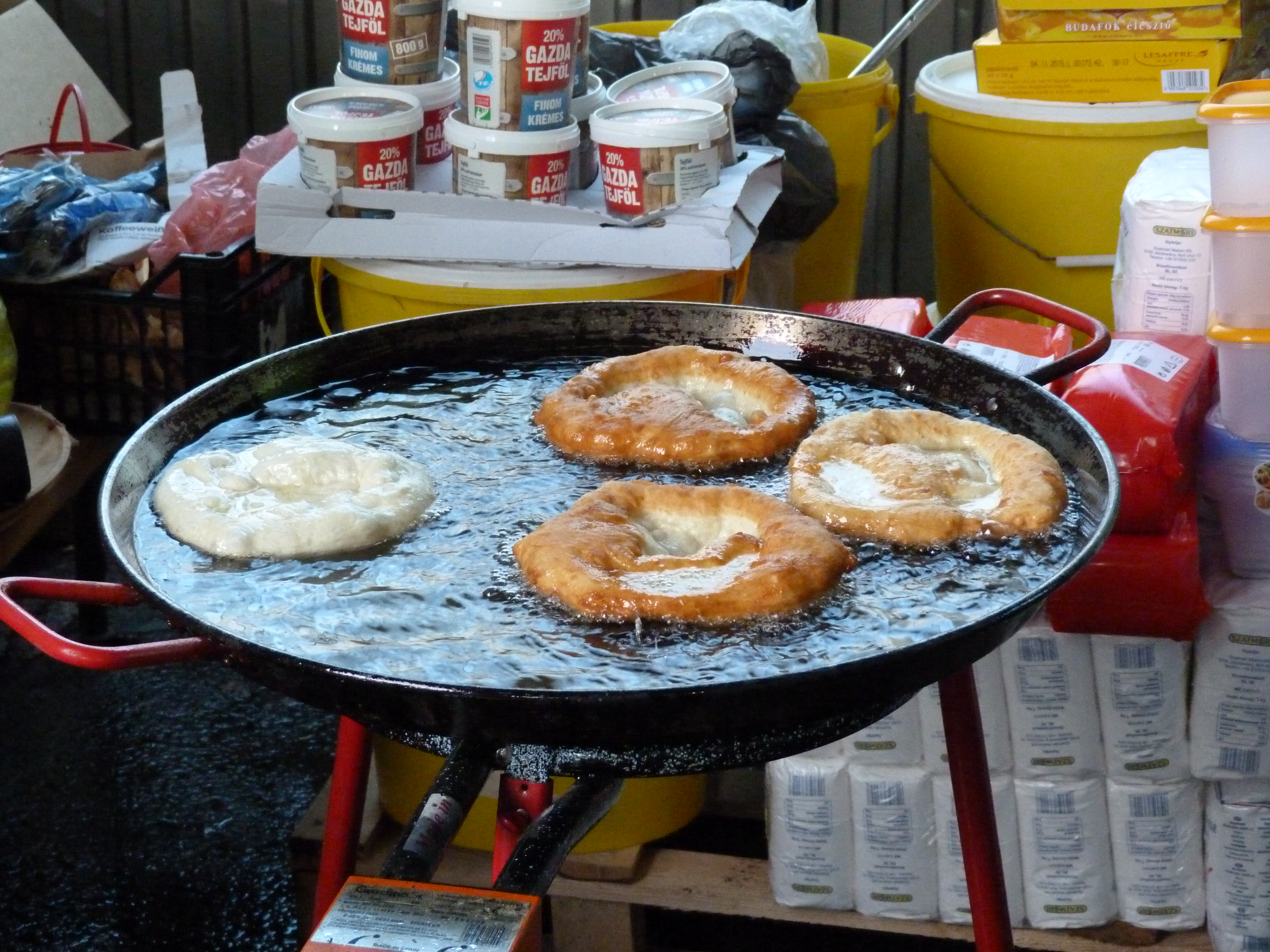 Live on the 17th of October, 2015. Lángos being roasted for the volunteers in Hegyeshalom.